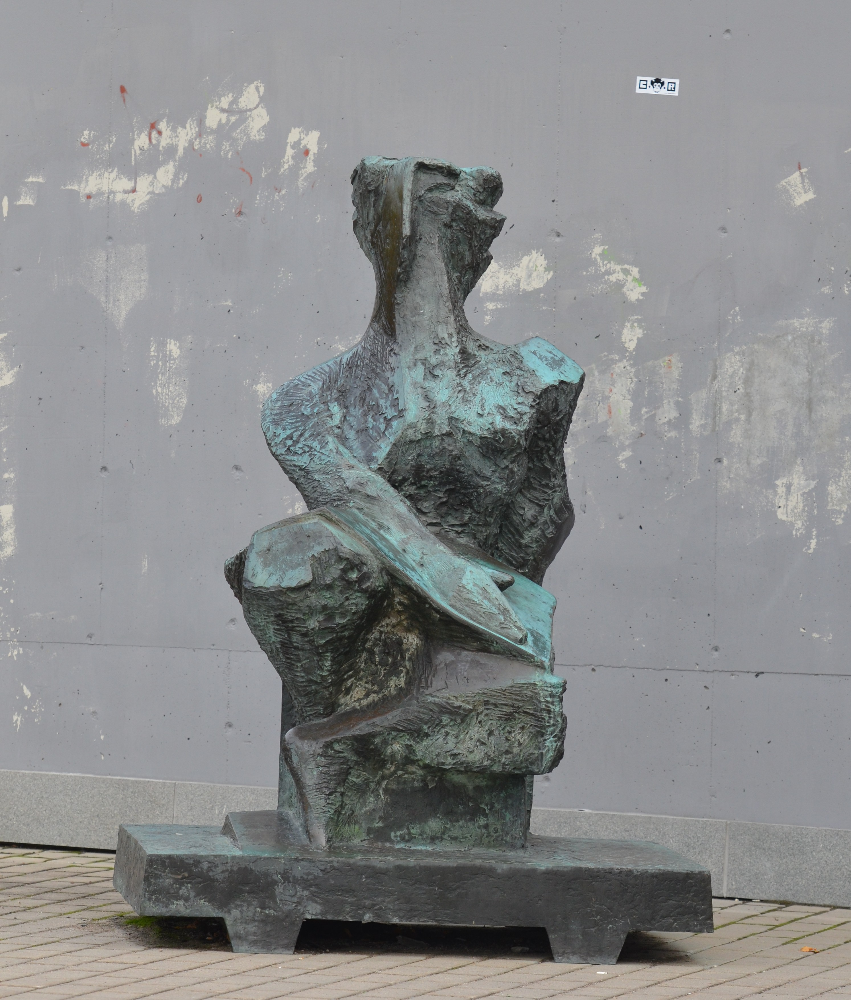 Camille Assise by Willy Gordon, outside Eriksdalsbadet, Stockholm